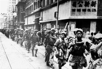 People's Liberation Army troops entered to Nanjing Road, Shanghai on May 25, 1949. 中文（中国大陆）: 1949年5月25日，中国人民解放军进入上海南京路